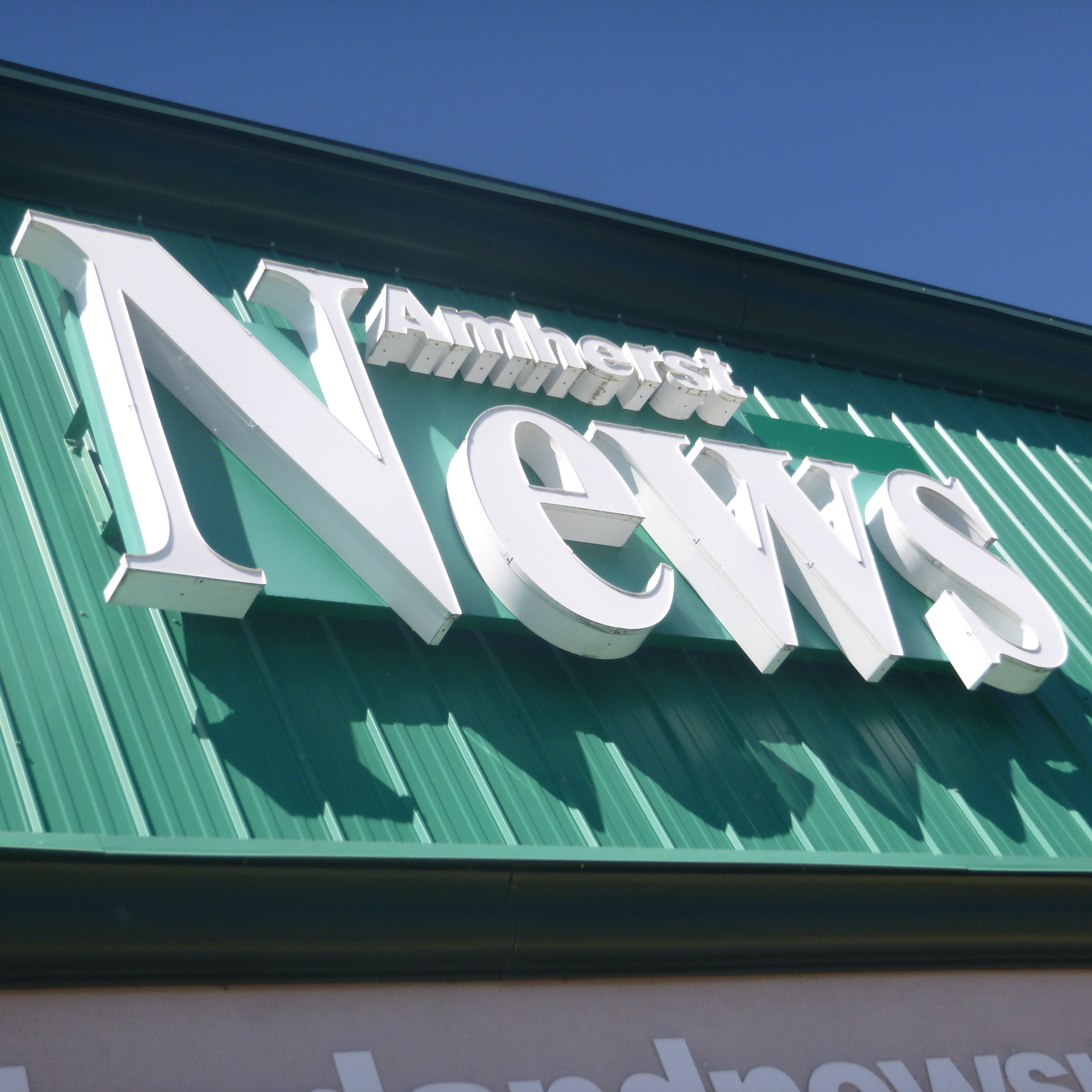 Amherst, Nova Scotia newspaper office banner